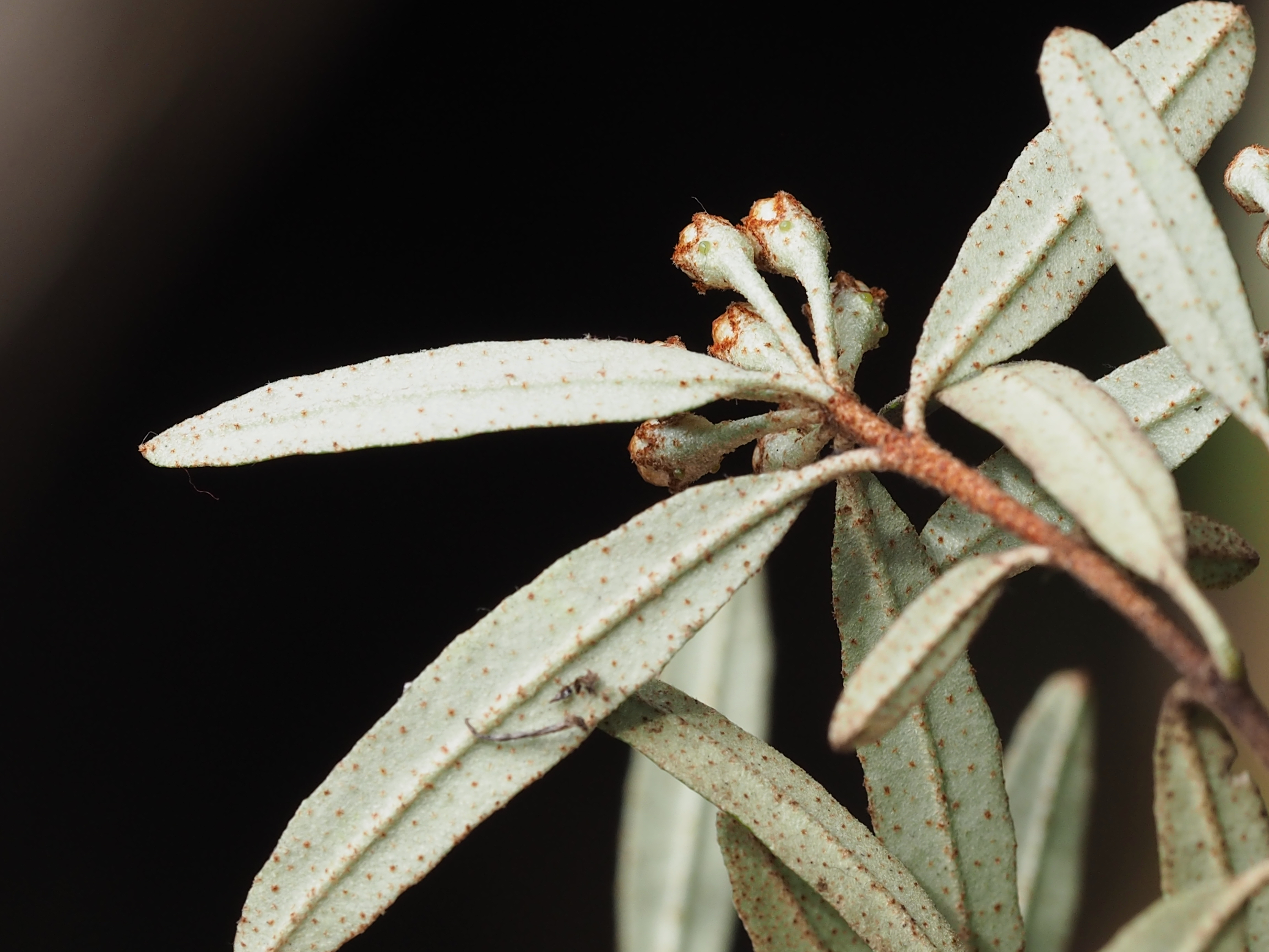 Phebalium woombye near Middle Creek in Sherwood Nature Reserve, detail of lower leaf surface and flower buds